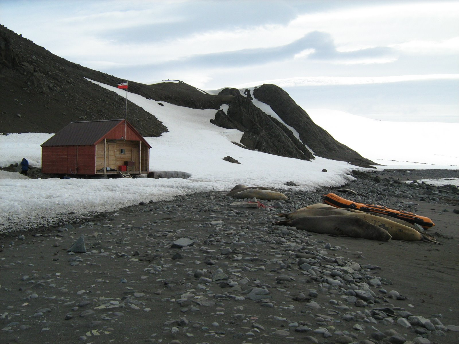 "Taturowa Chata", refugium of the Arctowski Station, King George Bay